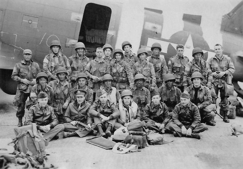 Pathfinders of the 2nd Battalion, 505th Parachute Infantry (82nd Airborne) and aircraft crew of plane #10 just before D-Day in front of their C-47 Skytrain; England